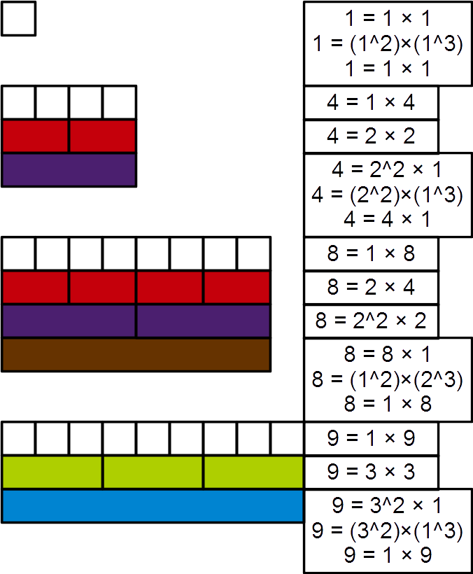 Showing, through Cuisenaire rods, that 1, 4, 8, and 9 are powerful numbers.